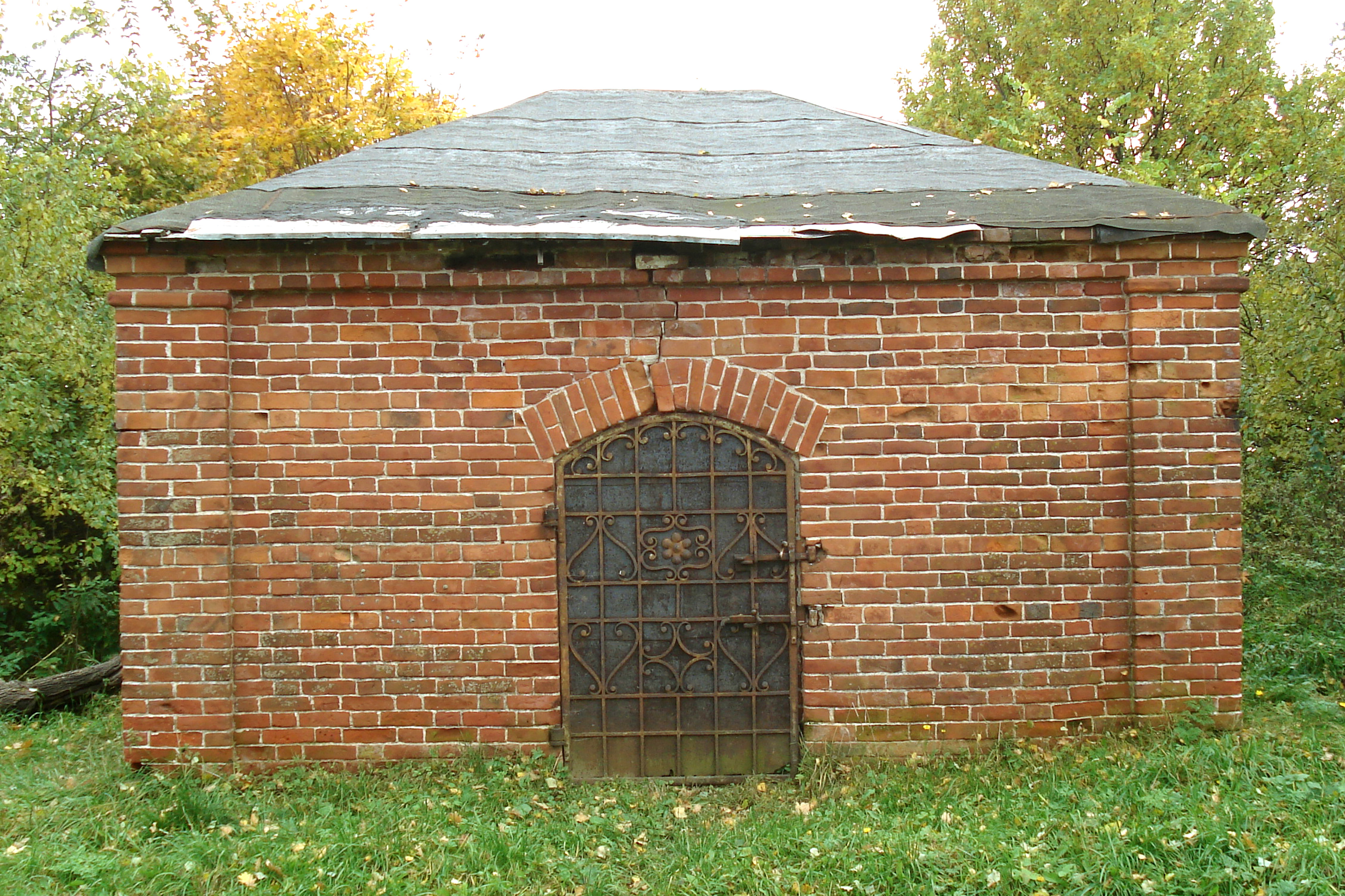 «Palatka» in the Village of Tretye Pole. Nizhegorodskaya oblast. Russia.